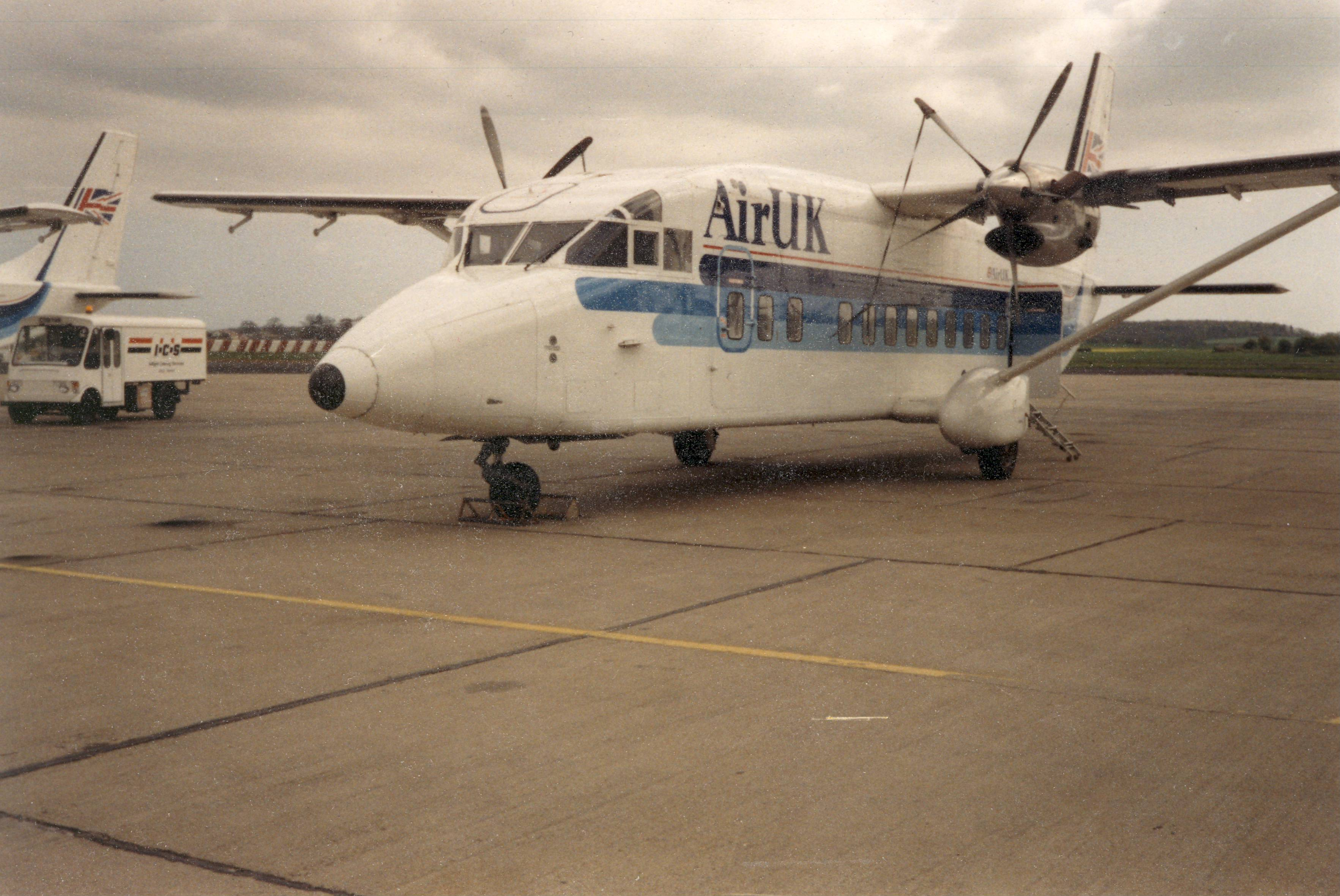 Two Shorts 360 a/c were based at HUY in 1989, operating the HUY-AMS and HUY-NWI-LHR schedules